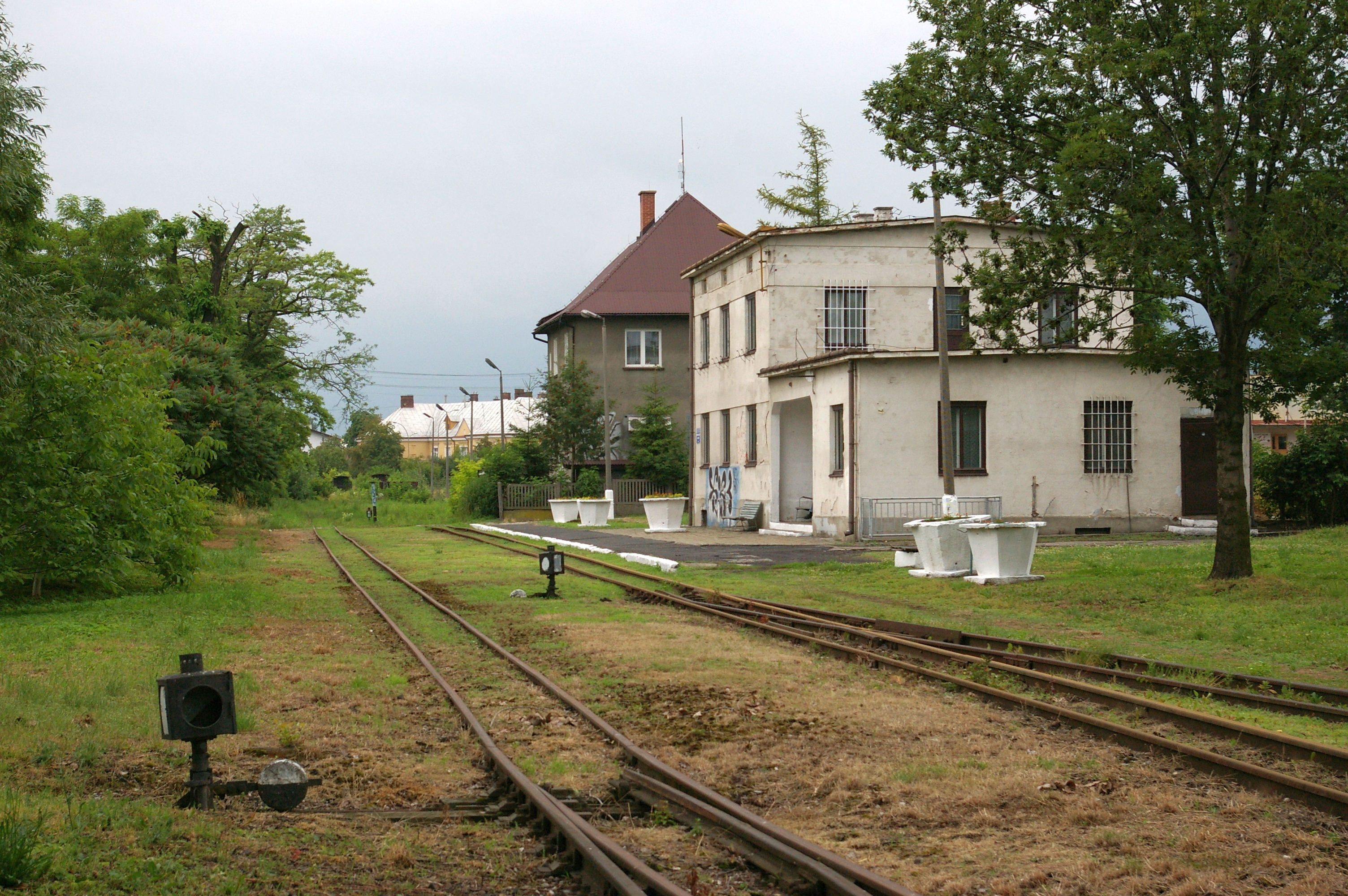 Narrow gauge railway station in Przeworsk